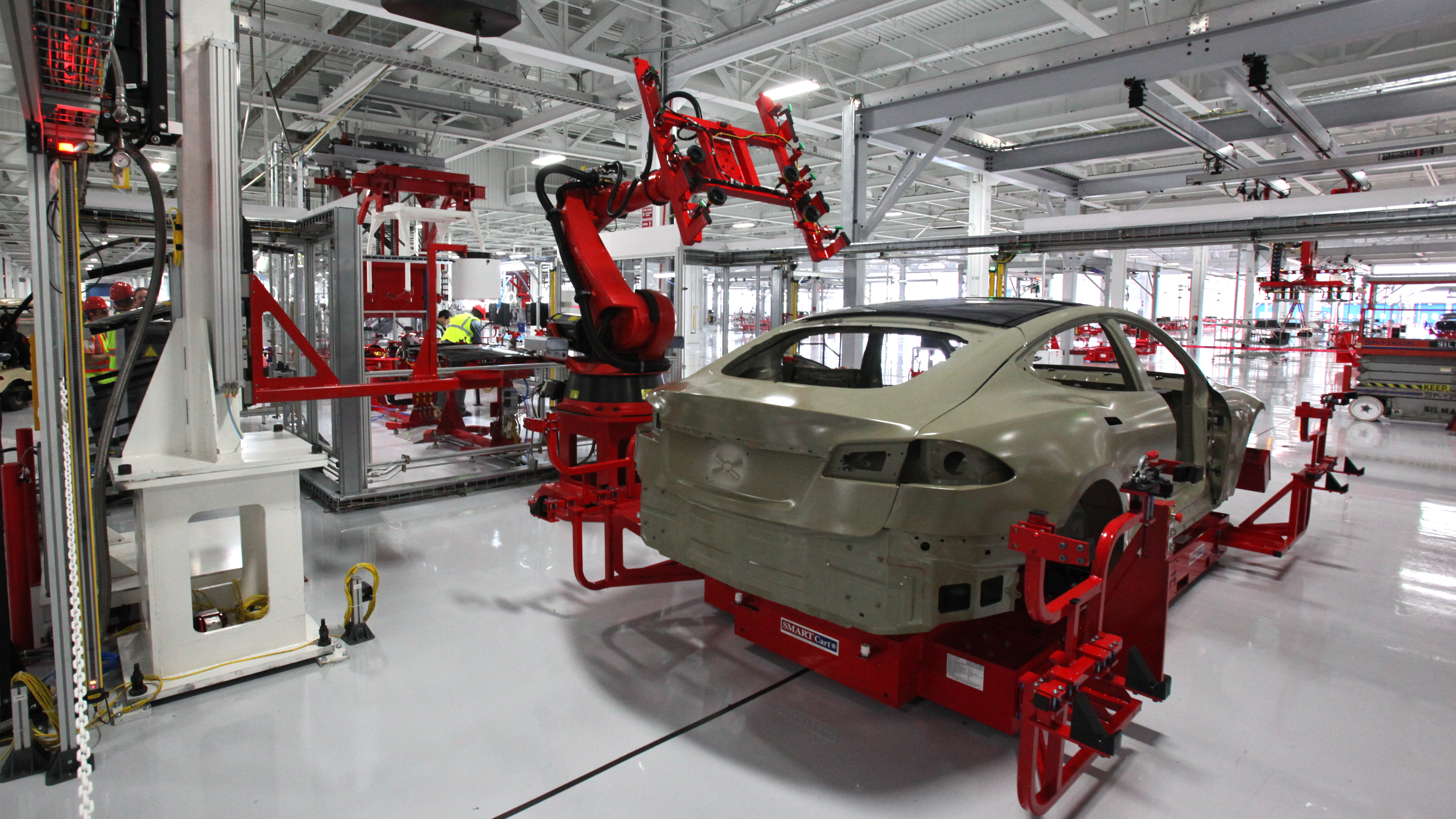 a factory tour after the Model S drive on the track. This one installs the laminated glass roof. It's amazing how much brighter the factory looks after the floor has been epoxied white, just like they have at SpaceX... and Ironman =)